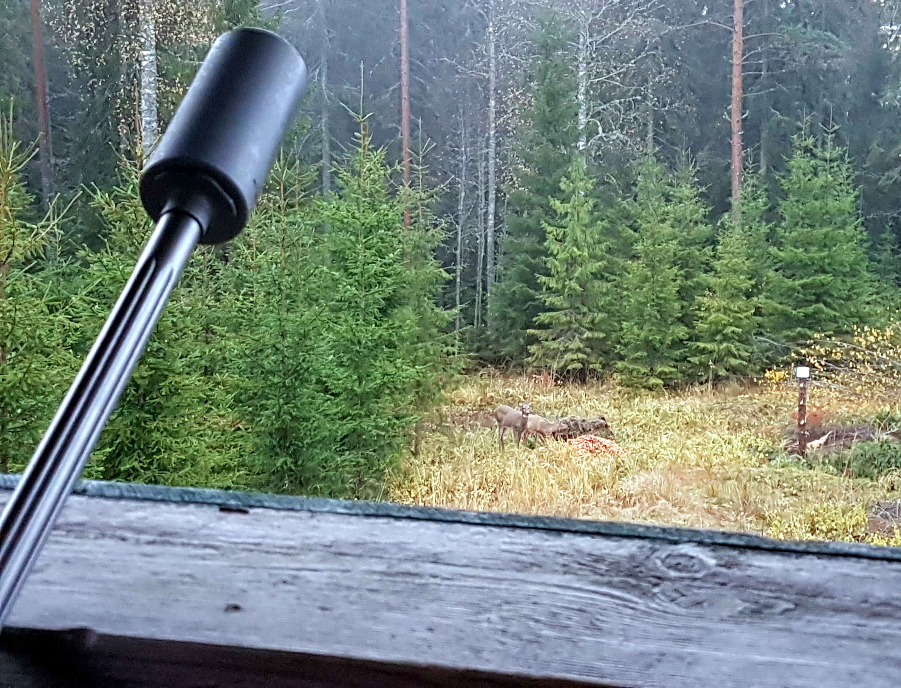 View on two roe deer (Capreolus capreolus, center) from a hunting blind in Finland – Paul Childerley on a driven hunt in Finland gallery. On the left a gun barrel, equipped with a silencer